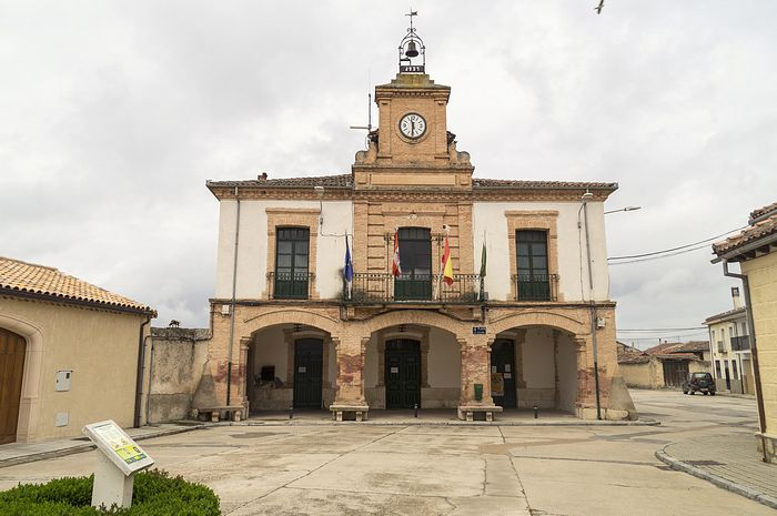 Ayuntamiento